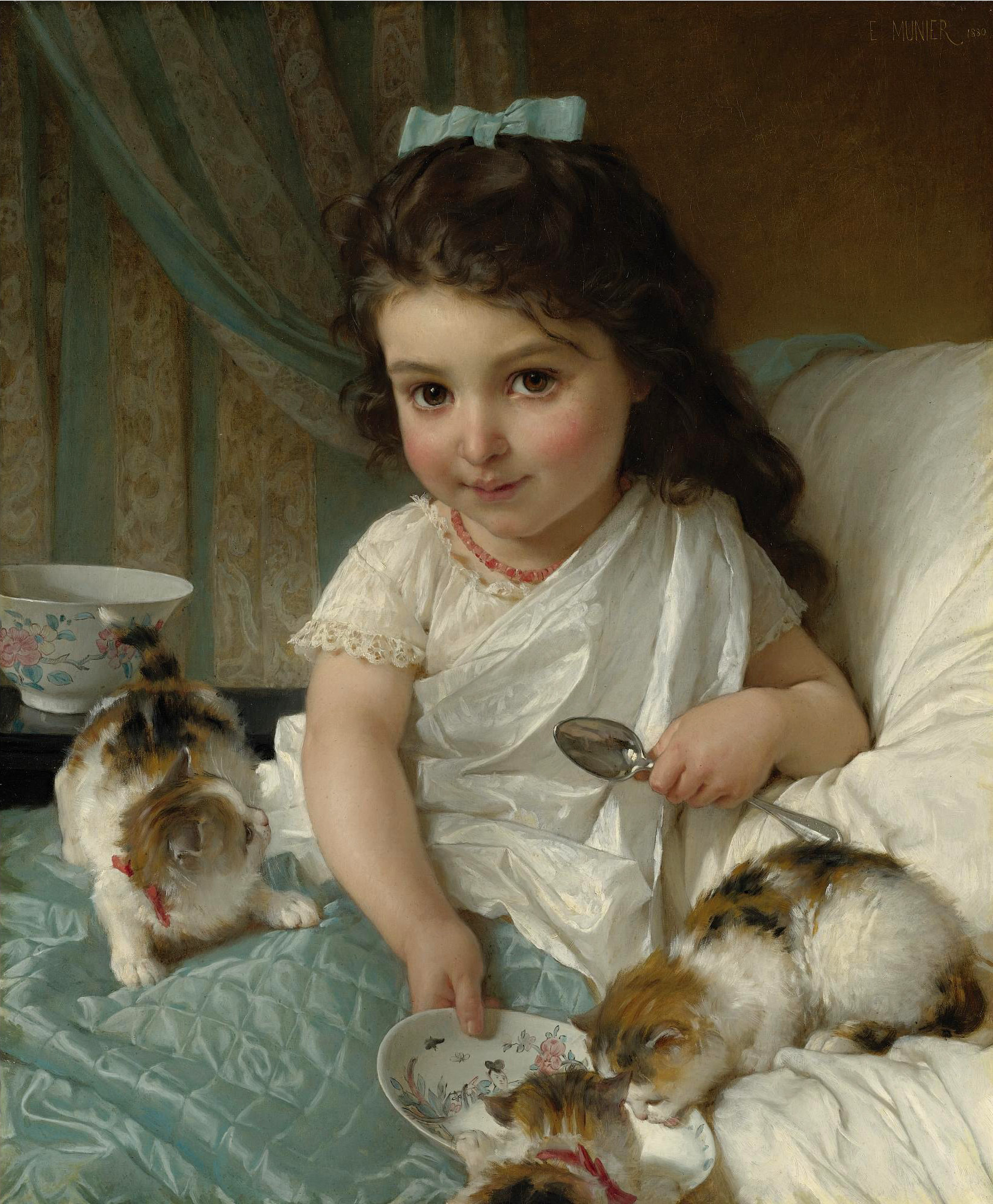 The Morning Meal